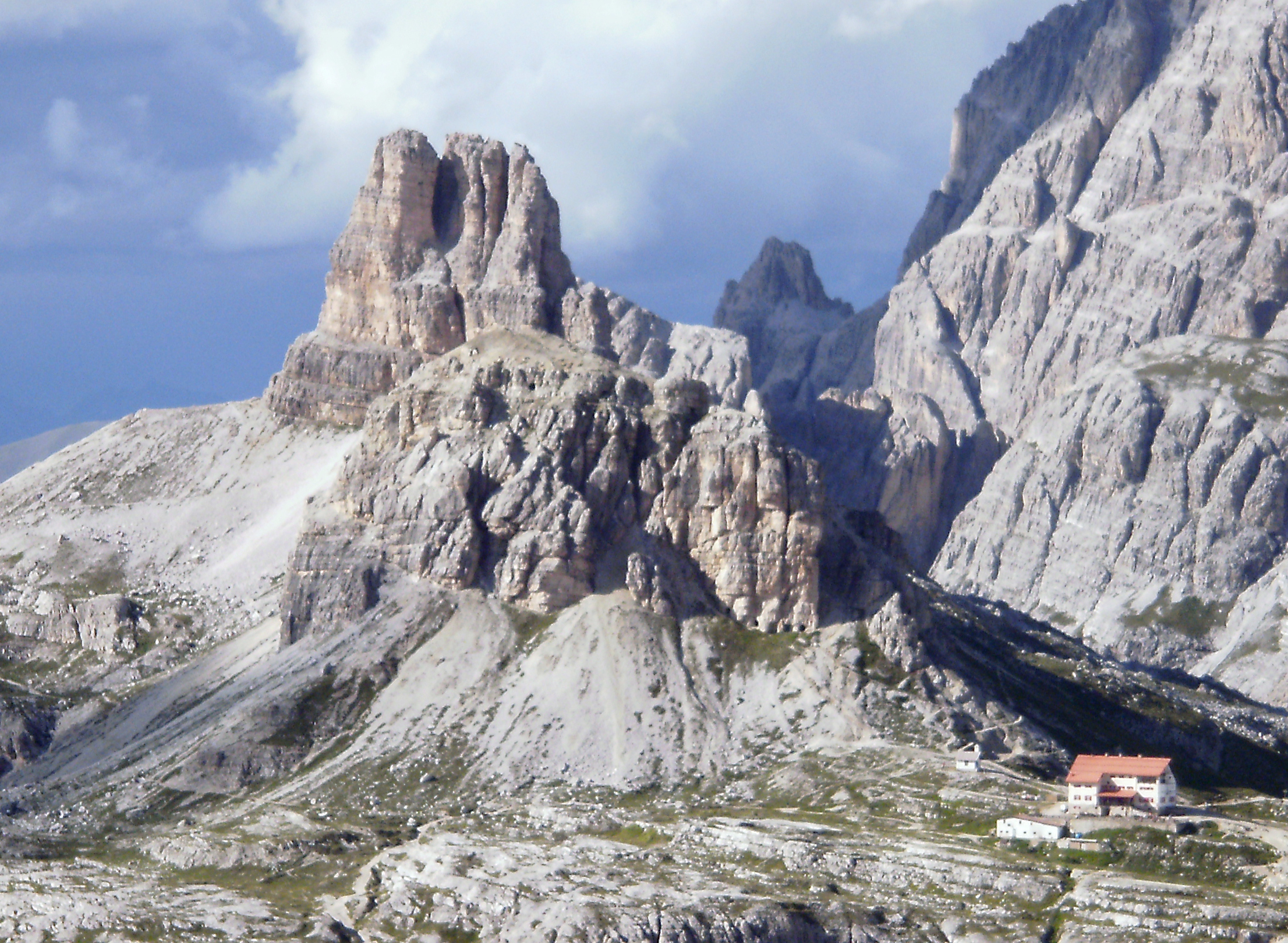 Toblinger Knoten, Sextenstein, Dreizinnenhütte